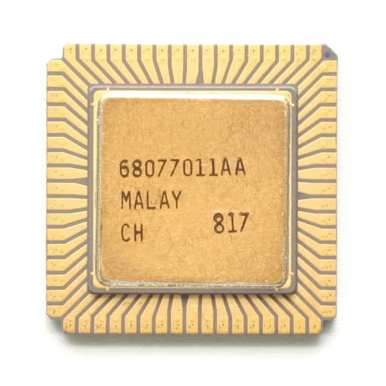 CPU Intel 80286, CLCC, bottom view.